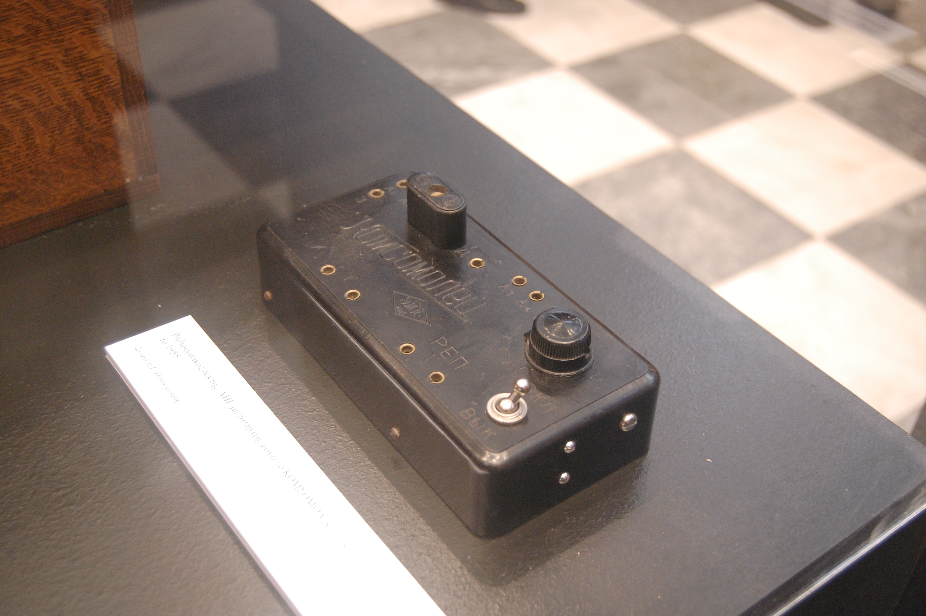 КОМСОМОЛЕЦ galena radio receiver. Made in the USSR, 1955.